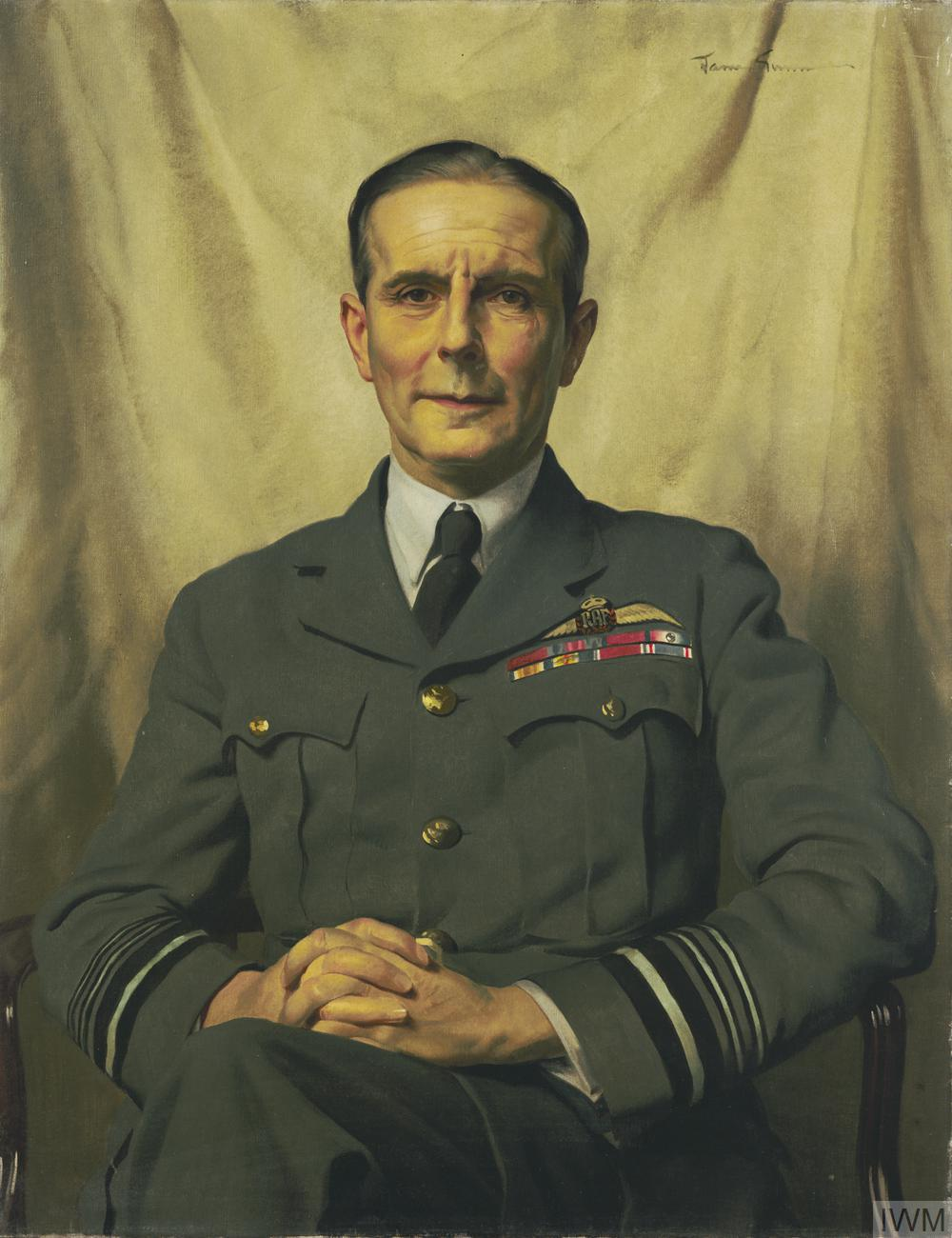 A half length seated portrait in uniform of Air Marshal Sir Philip Joubert de la Ferté, KCB, CMG, DSO